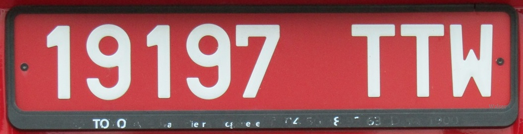 19197 TTW French free zone license plate (Gex)